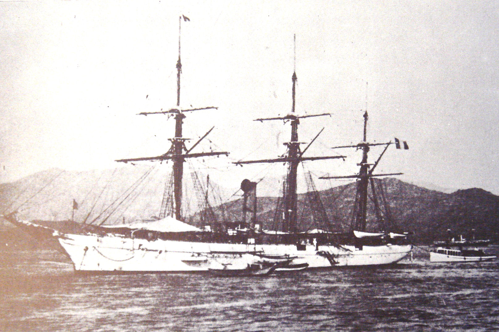 French warship Le_Volta_(1867-1892), aviso de premiere classe a helice